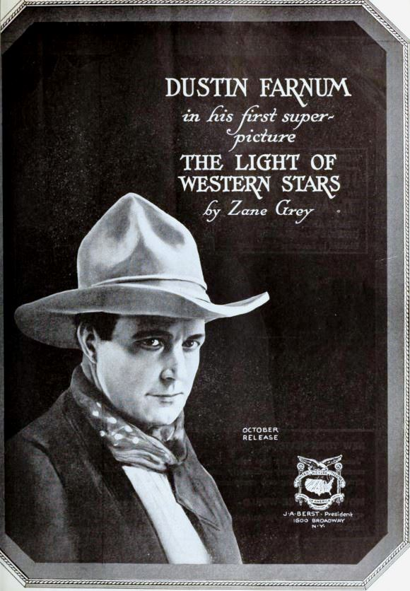 Advertisement for the American western film The Light of Western Stars (1918) with Dustin Farnum, on page 17 of the October 26, 1918 Exhibitors Herald.